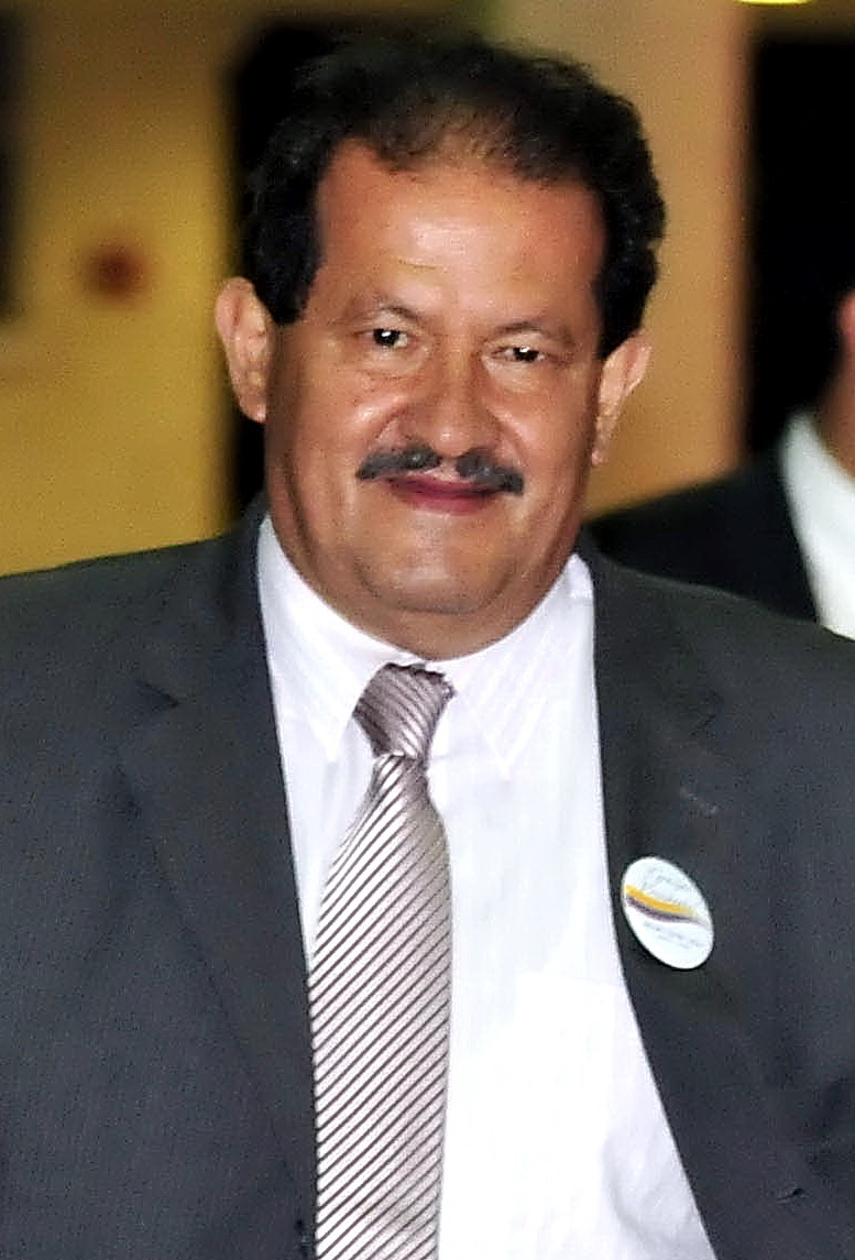 Pic by Neil Palmer (CIAT). Colombia's outgoing president Alvaro Uribe meets the public during a visit to the Agro Del Pacífico 2010 agricultural fair in Cali on Friday (July 30). President Uribe also met CIAT's Andy Jarvis, who attended the event to promote an ambitious new Site-Specific Agriculture based on Farmers' Experiences (SSAFE) project.